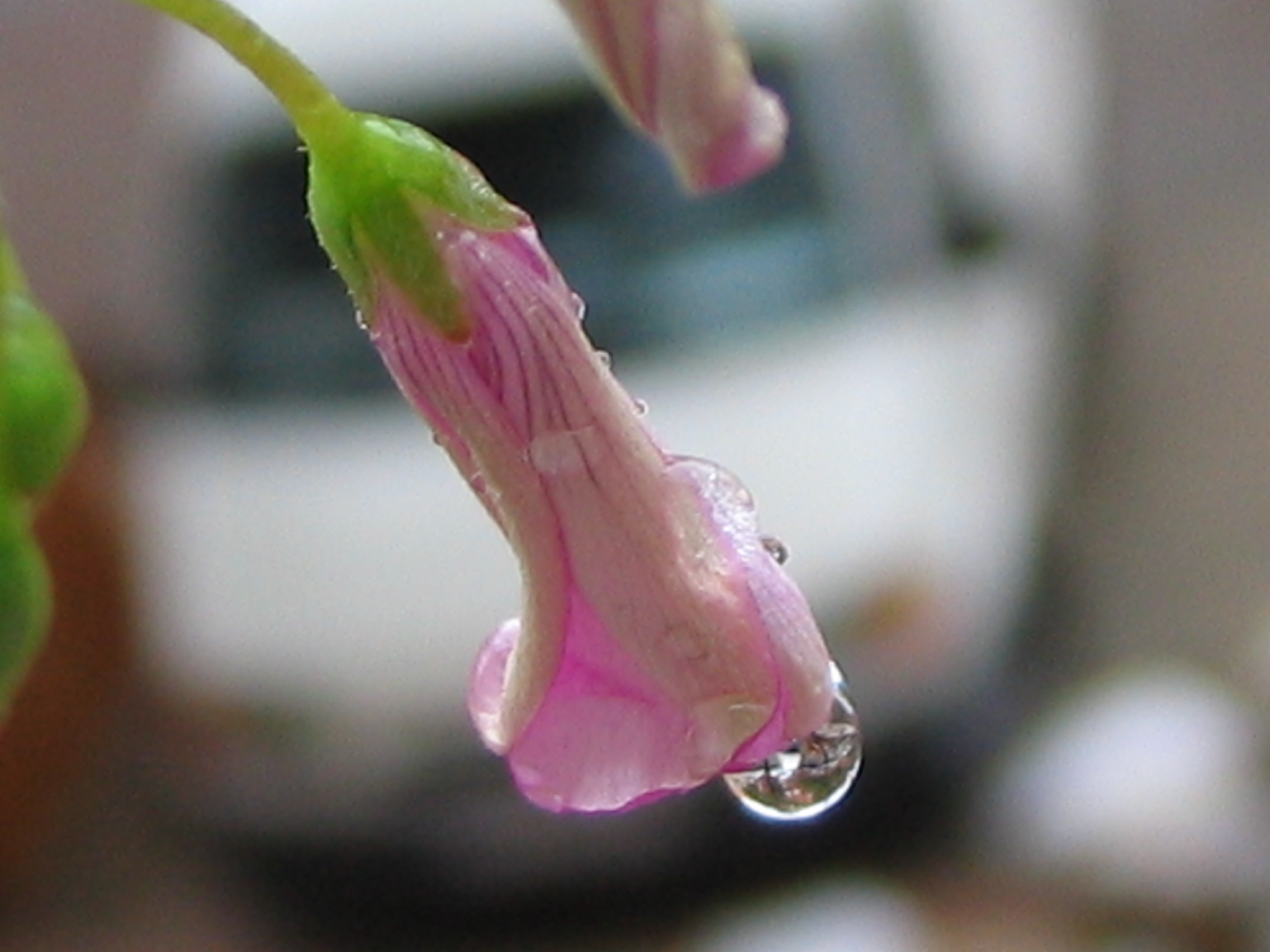 Flower